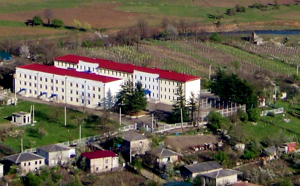 River Kvirila at Sachkhere